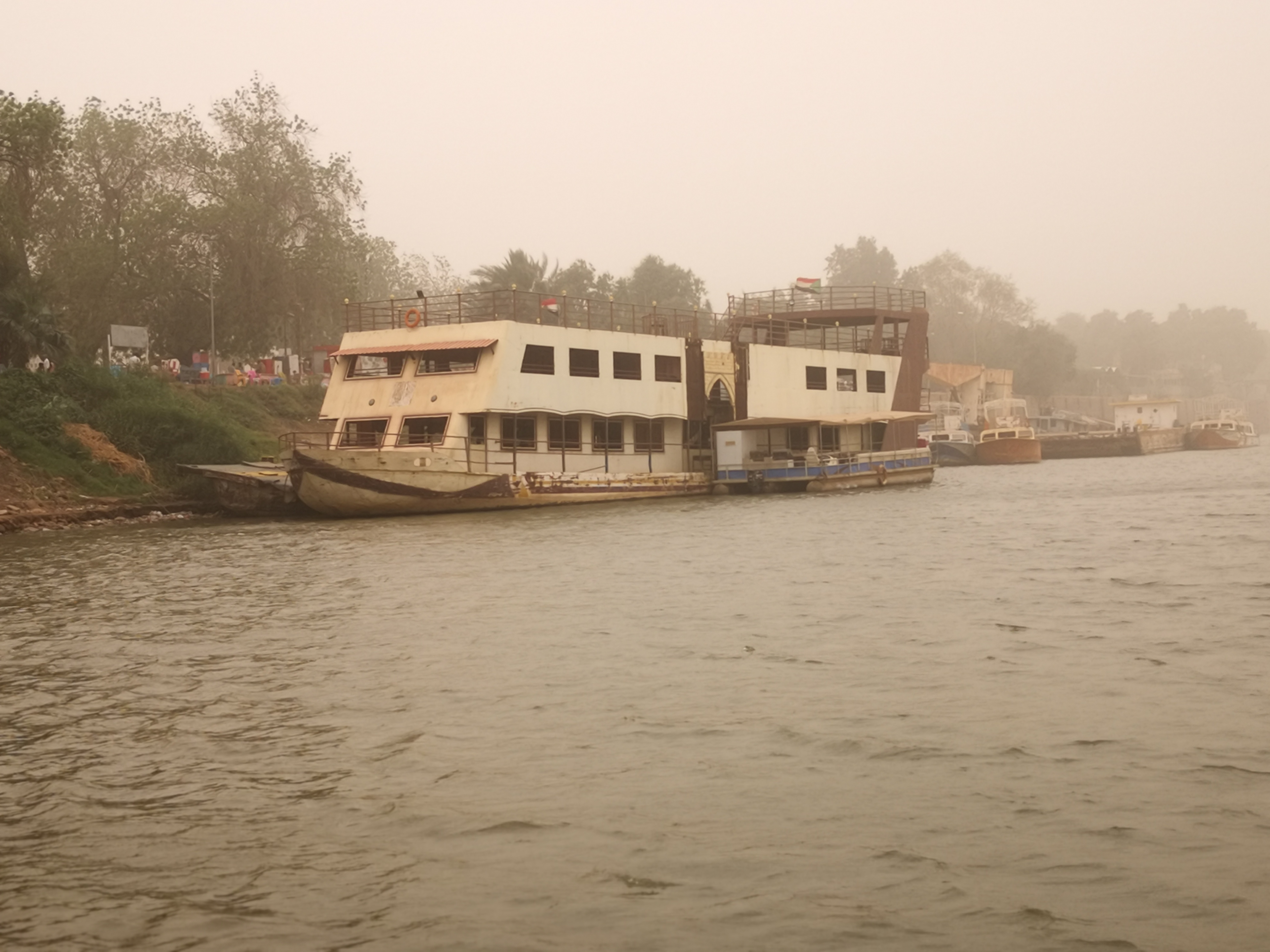 سفينة صغيرة جزيرة توتي الخرطوم WLASudan2020 This is an image with the theme "Africa on the Move or Transport" from: Sudan